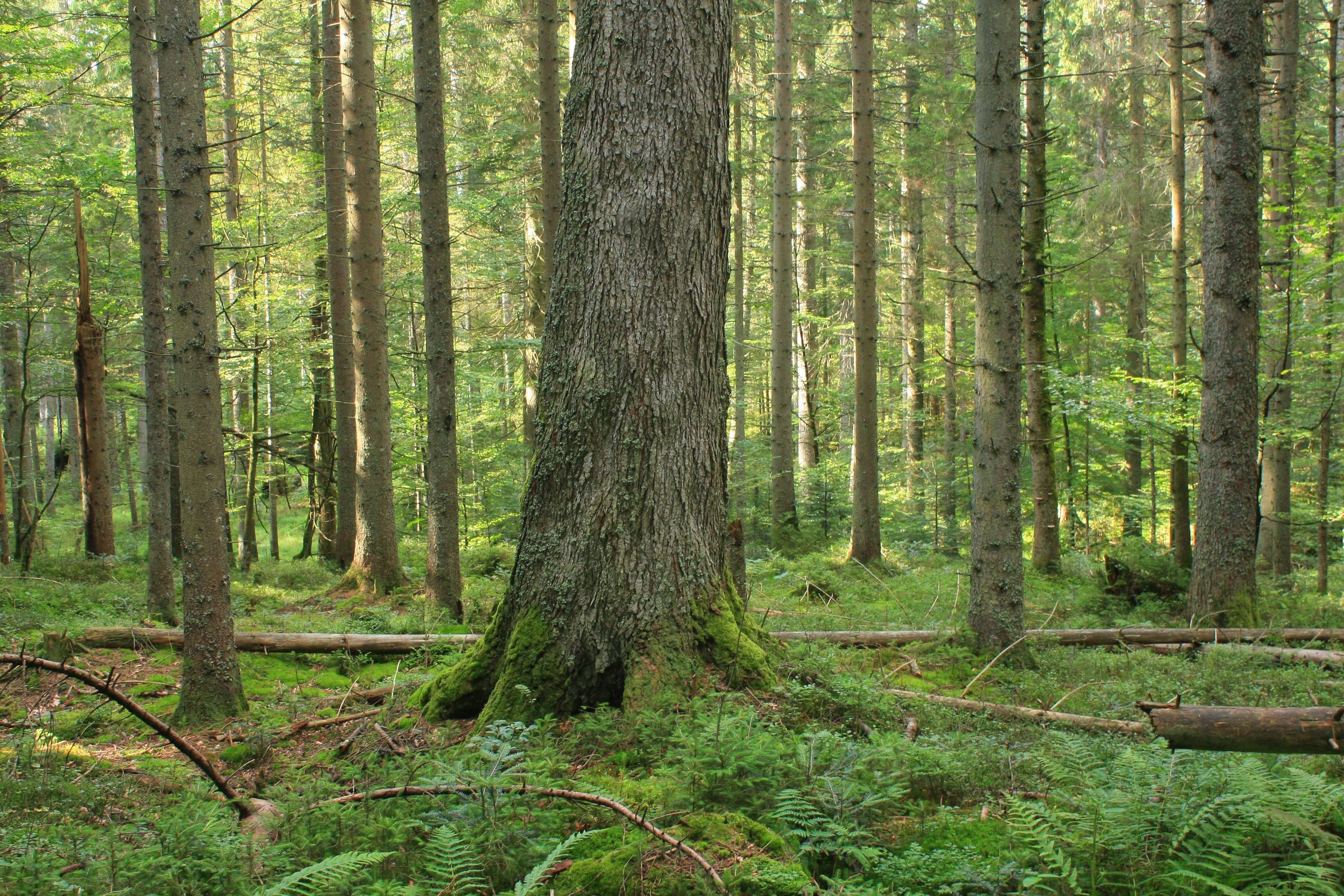 Picea abies near Zwieslerwaldhaus, Bavarian Forest Nationalpark